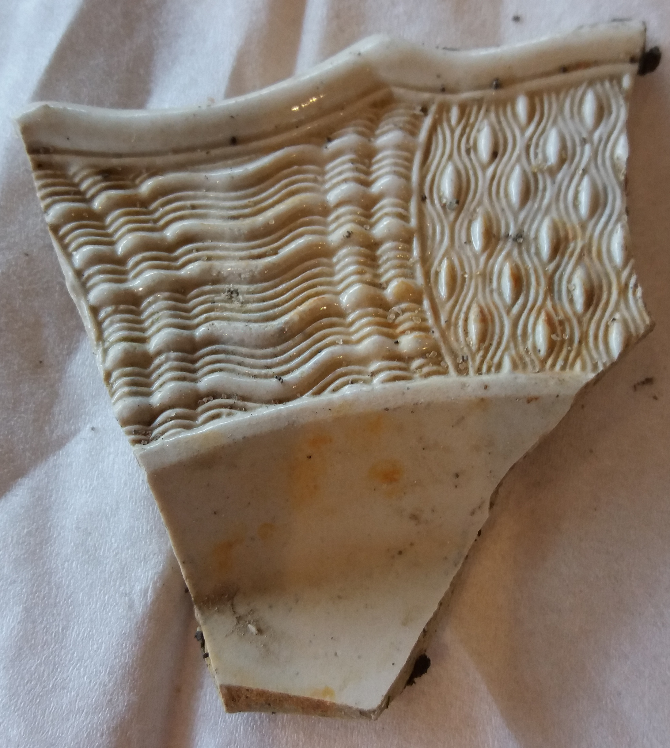 Fragment of 18th-century creamware found on Thames foreshore, central London, August 2017. Showing typical patterns of border decoration. Staffordshire, c. 1760-1780. Courtesy C Hobey.